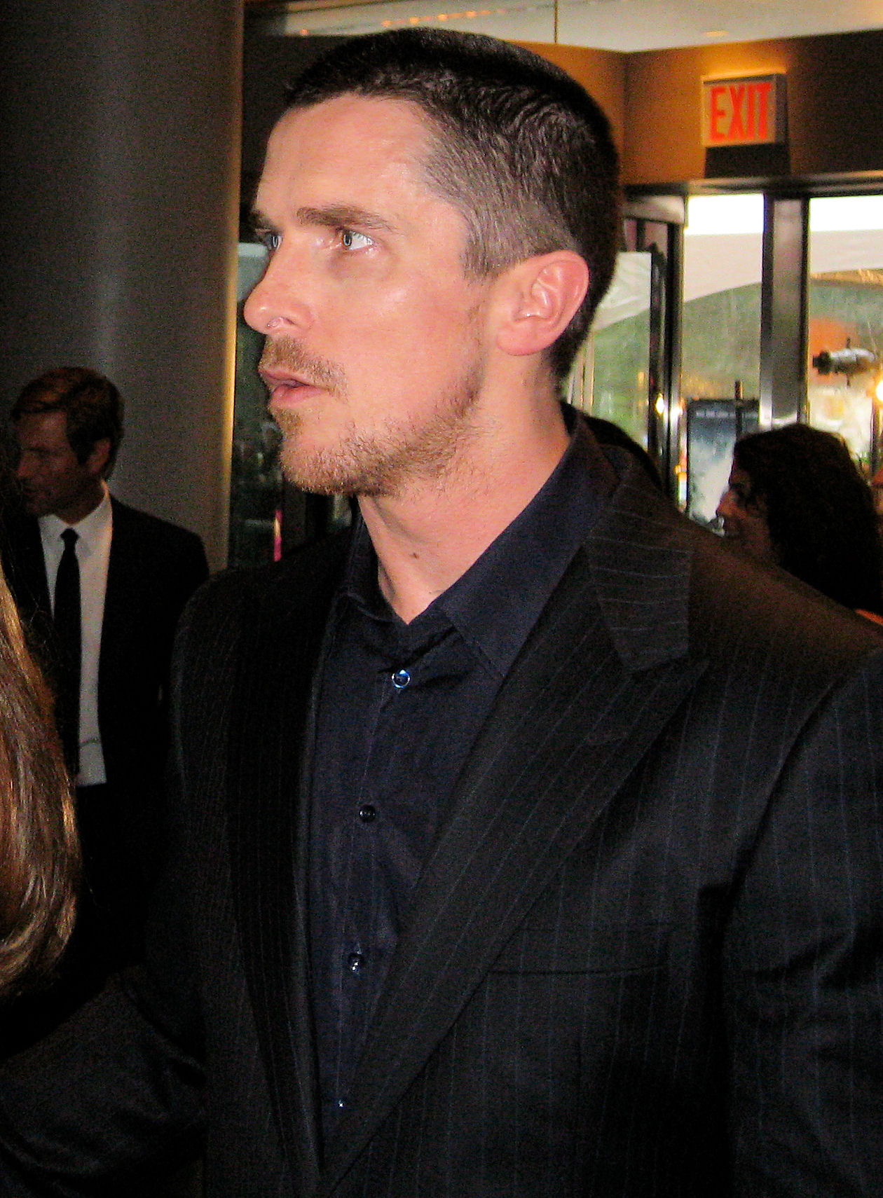 Christian Bale